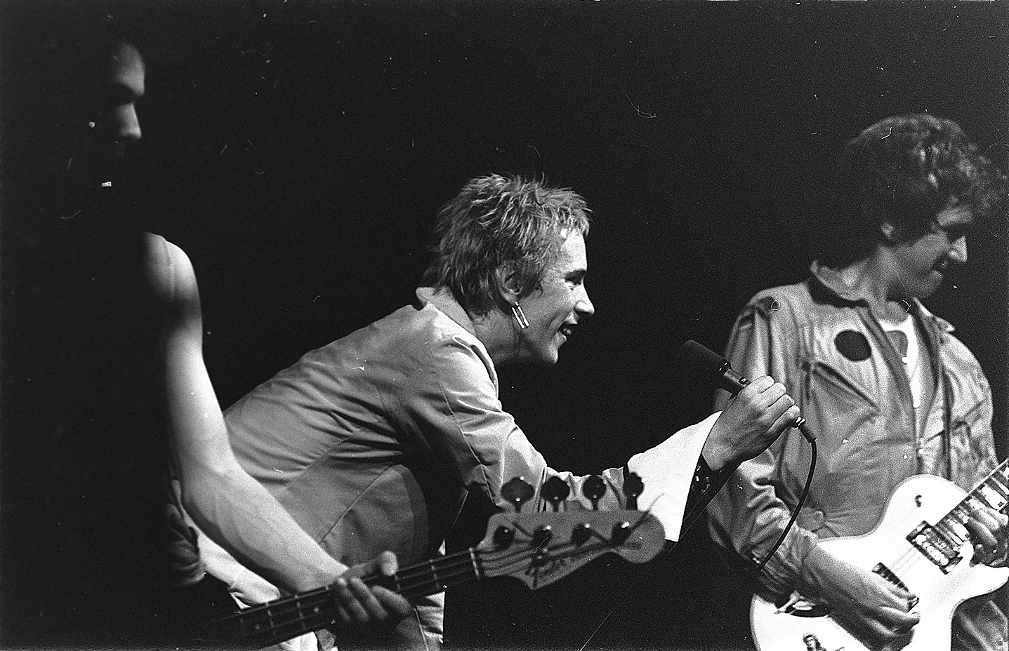 Image from National Archives of Norway's Flickr-Album "Protest" (all images marked with "No known copyright restrictions")